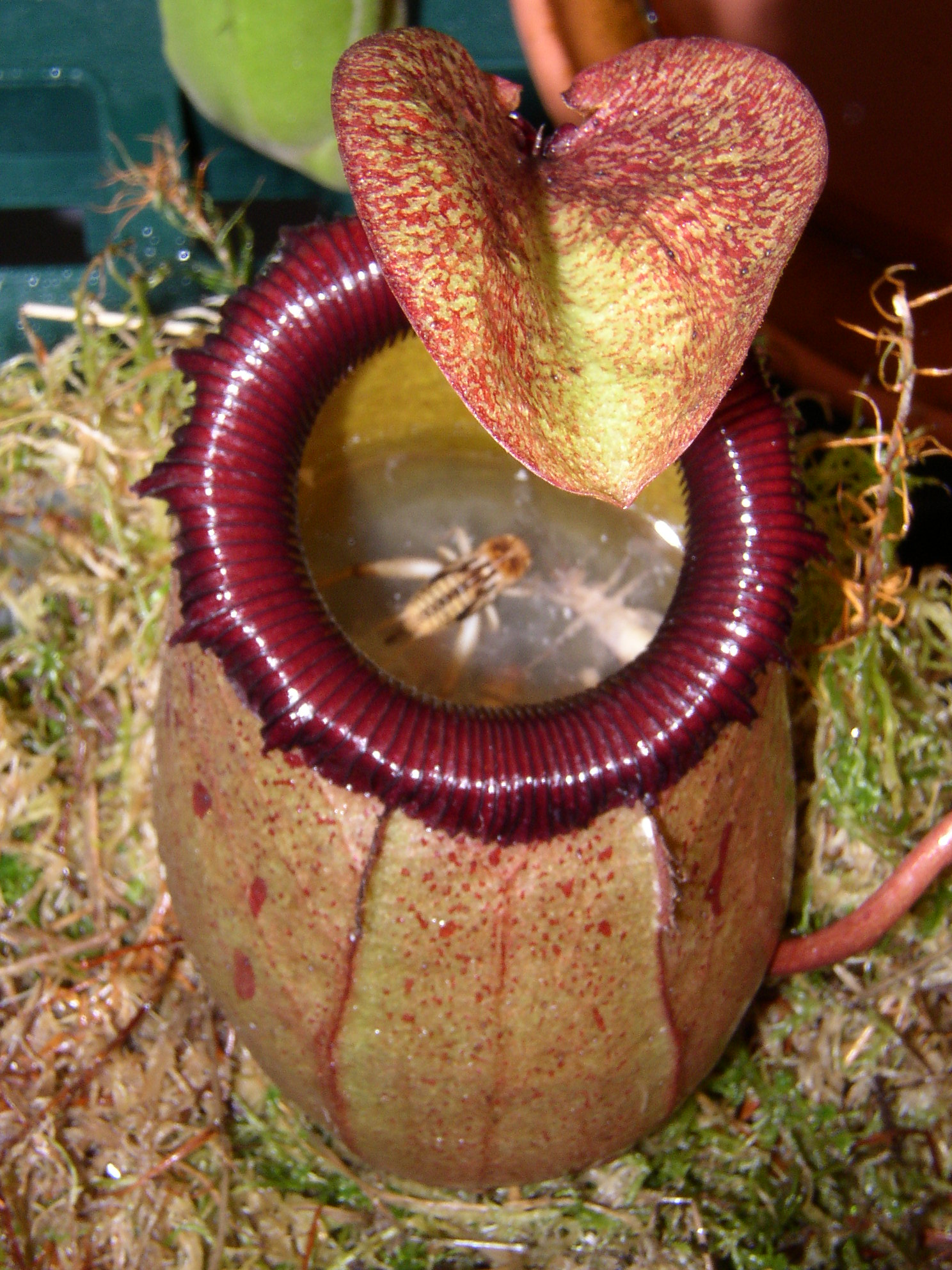 Photo of the photographers own plant.